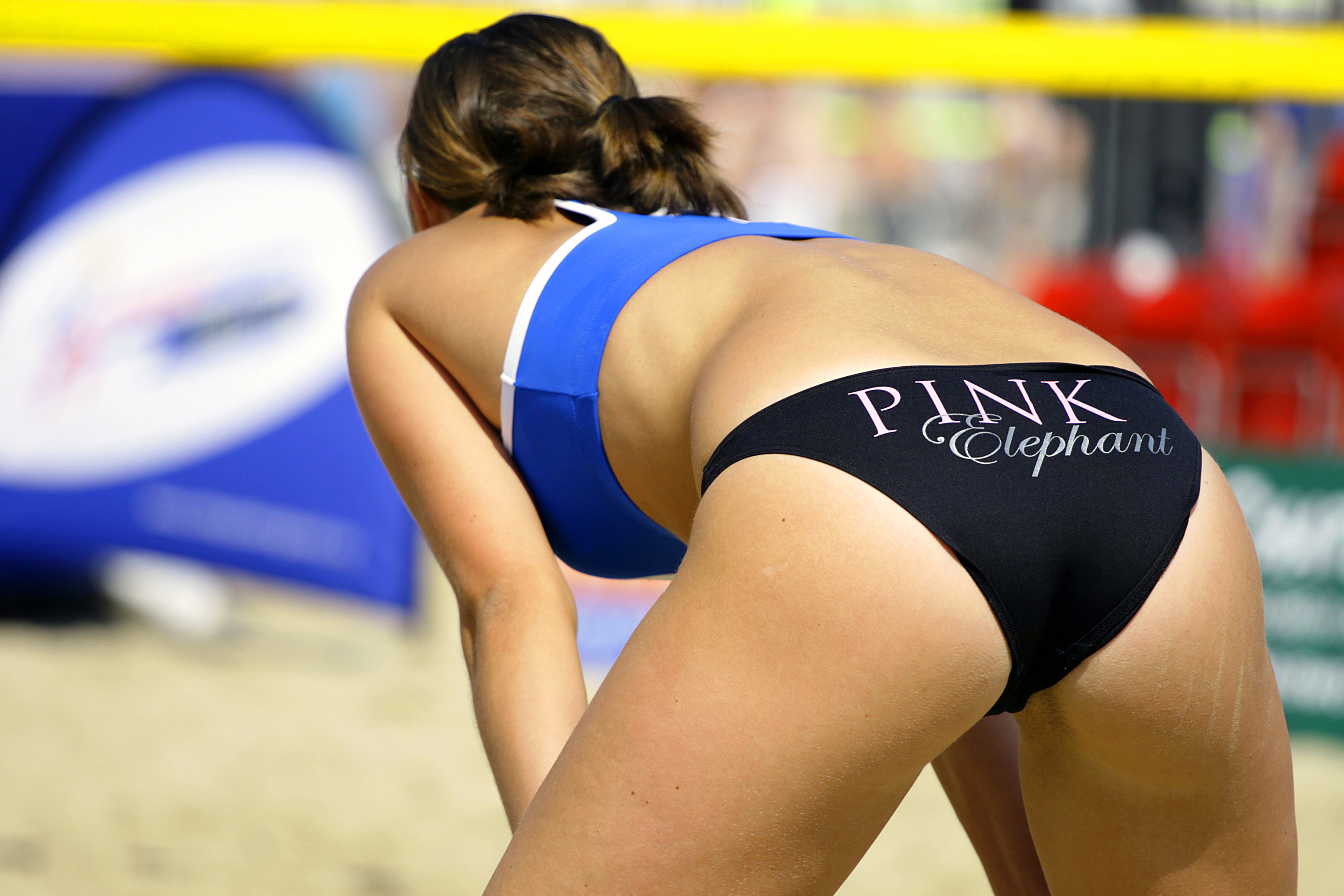 Beach Volleyball Classic 2007 Weymouth Dorset ENGLAND ; Pink Elephant